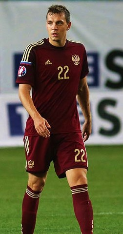 Artem Dzuba